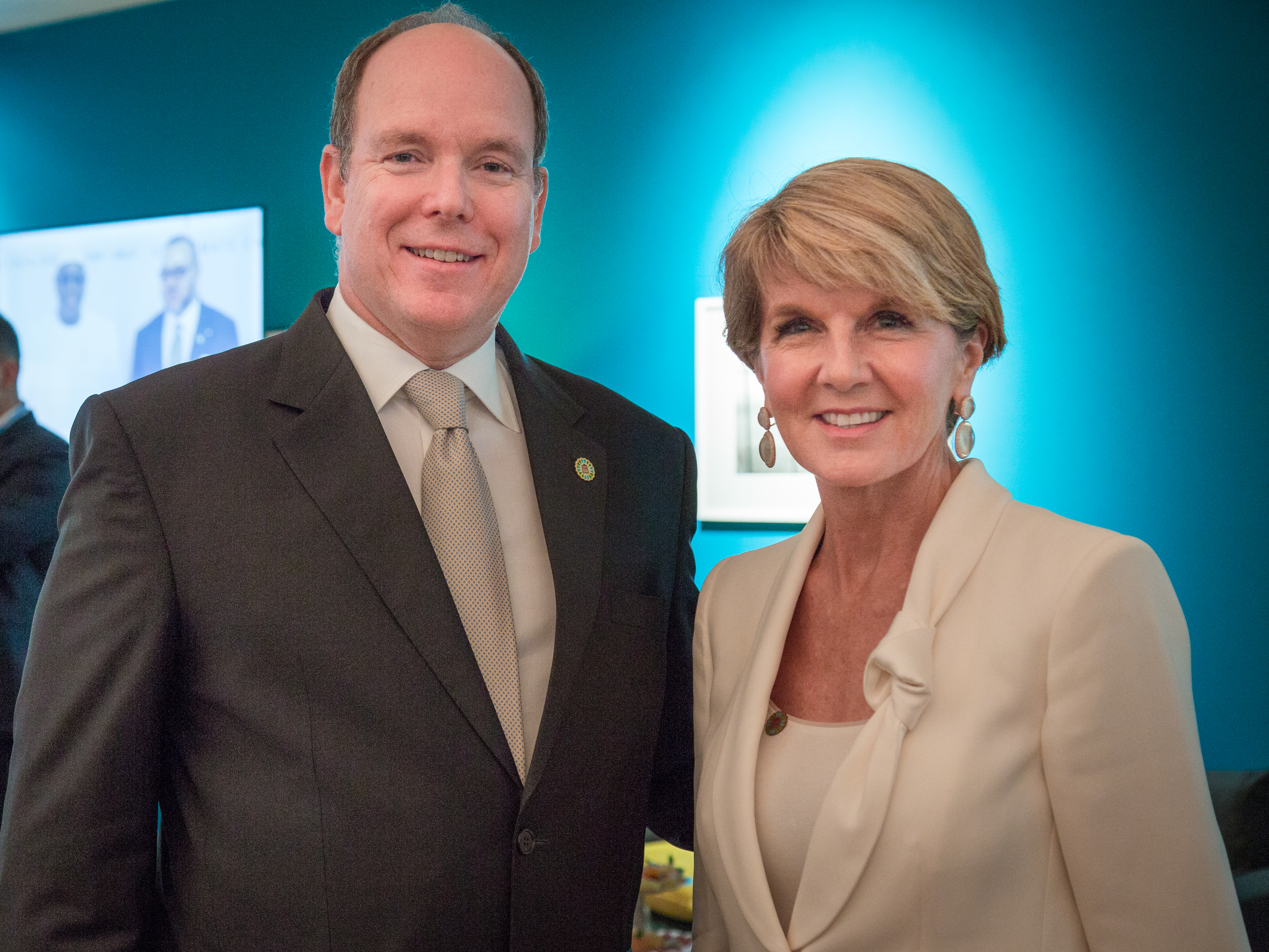 H.E. Prince Albert II, Sovereign Prince Monaco and H.E. Ms. Julie Bishop, Minister of Foreign Affairs of Australia